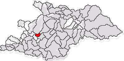 Map of Groşi commune in Maramureş